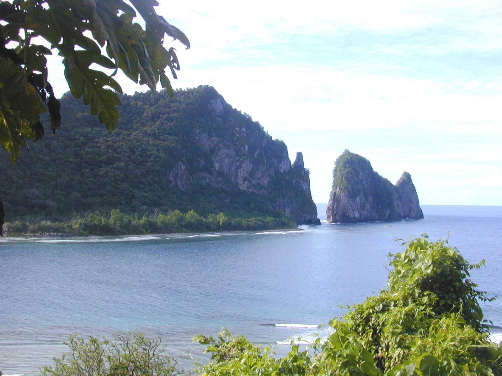 Looking across Vatia Bay towards Pola Tai, Tutuila, American Samoa; National Park of American Samoa